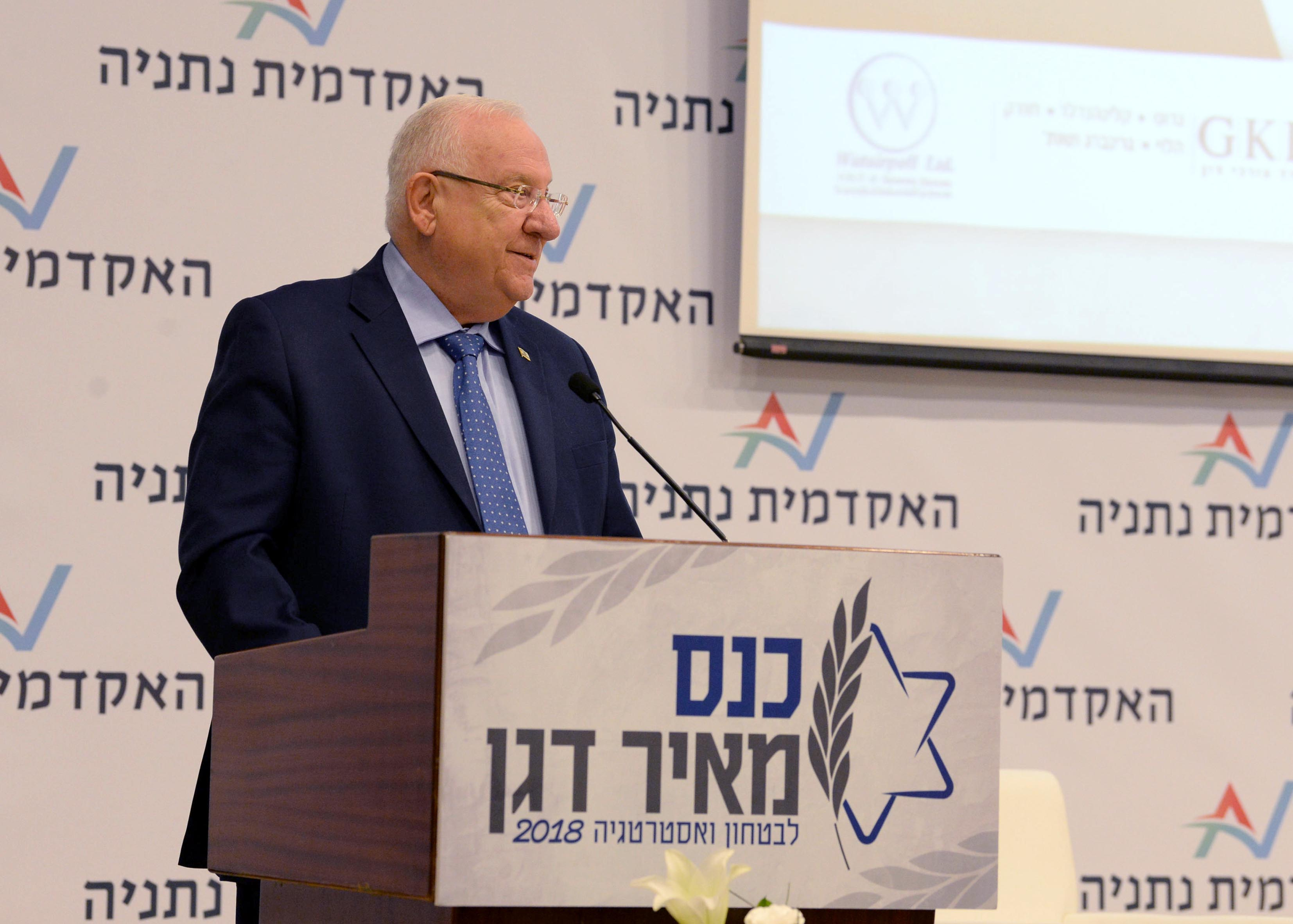 The President of Israel, Reuven Rivlin, at the Meir Dagan Conference on Security and Strategy for 2018. Wednesday, March 21, 2018. Photo Credit: Mark Neyman / GPO.